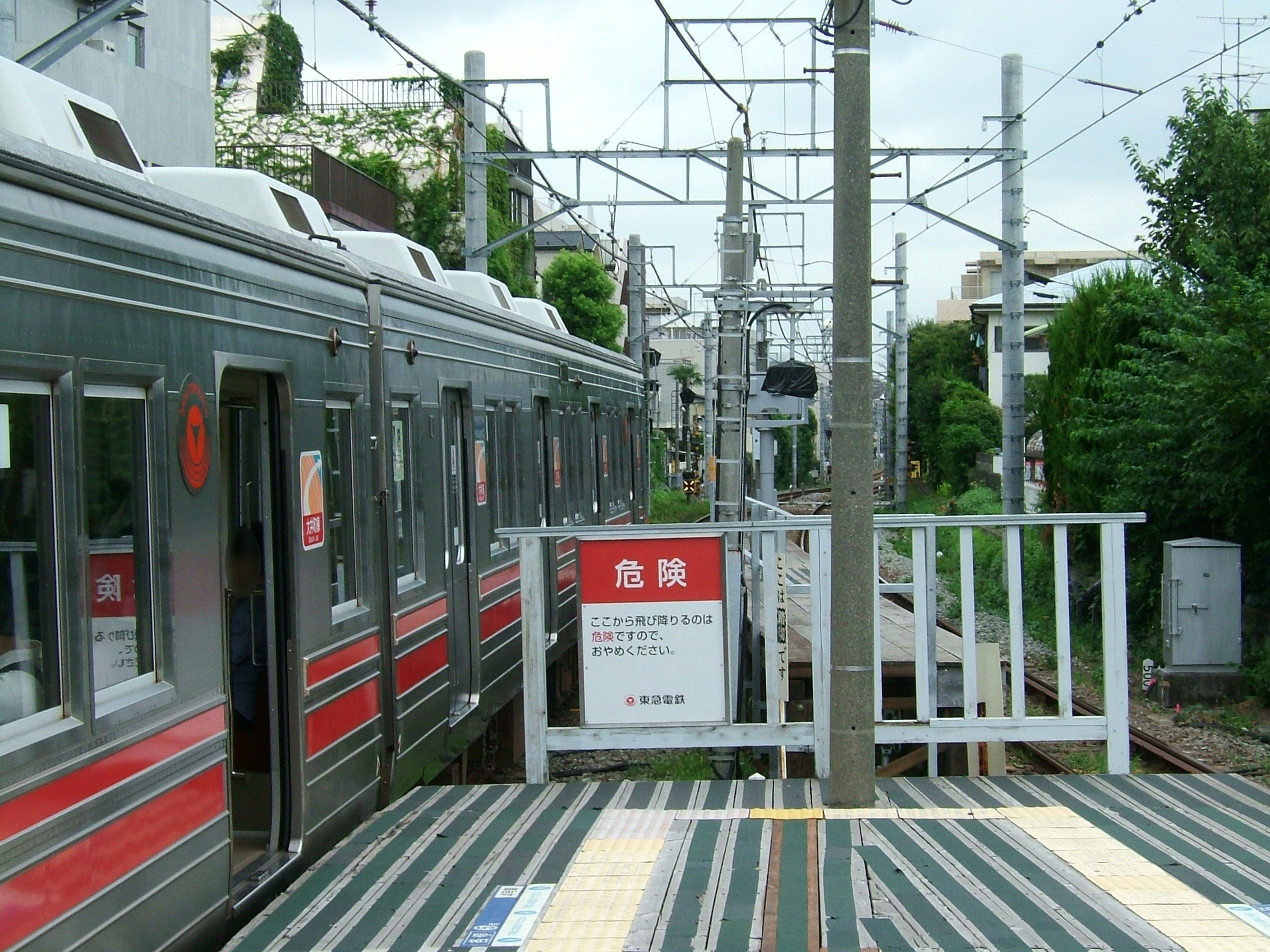 Kuhombutsu Station platform, the doors on the car for Futako-Tamagawa side are not opened. (Tōkyū Ōimachi Line)